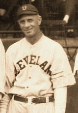 Frank Knauss at a 1921 Old Timers game at League Park. →This file has been extracted from another file: 1921 Cleveland Old Timers Day.jpg